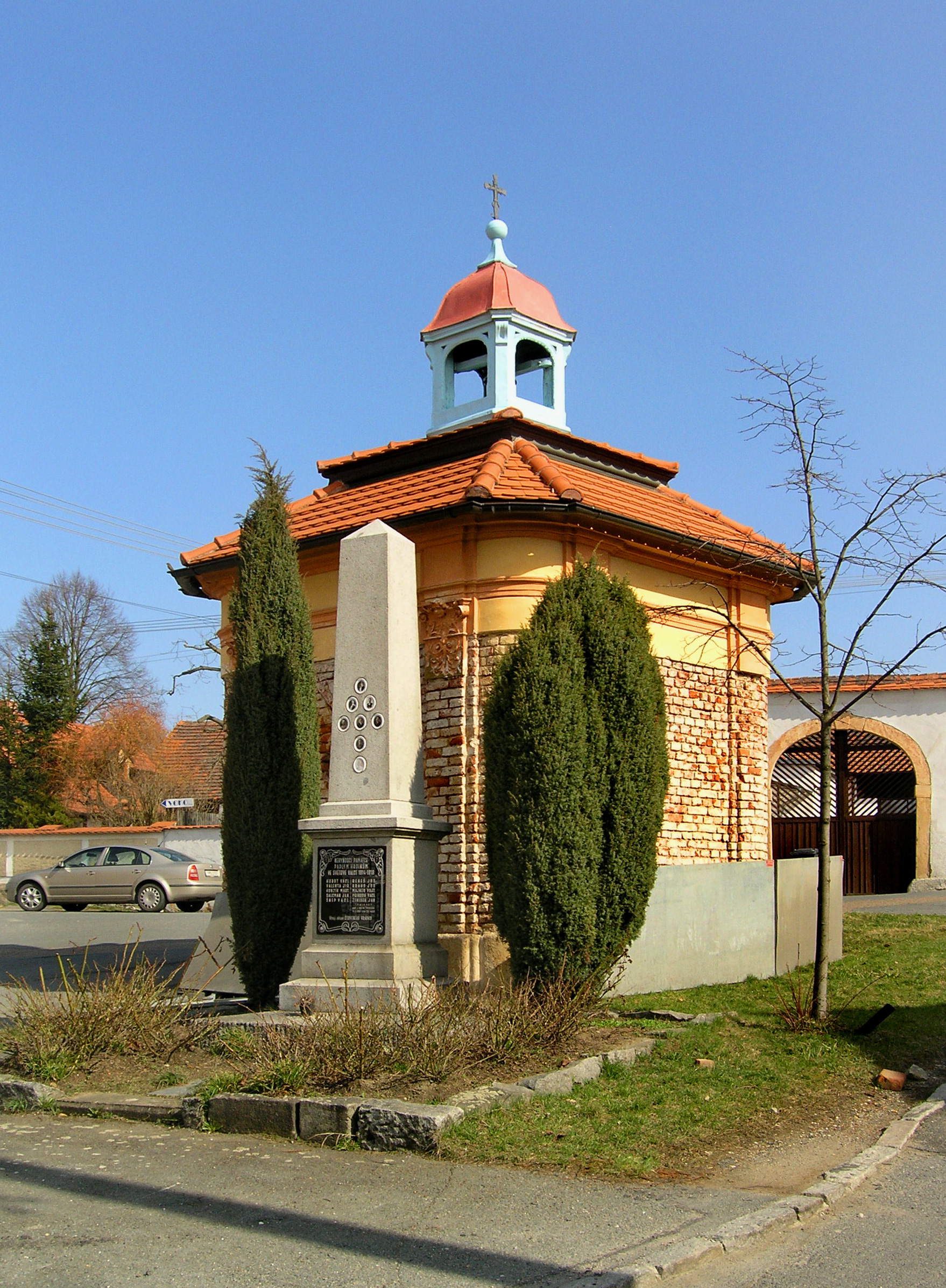 Chapel in Červený Hrádek, part of Plzeň town, Czech Republic